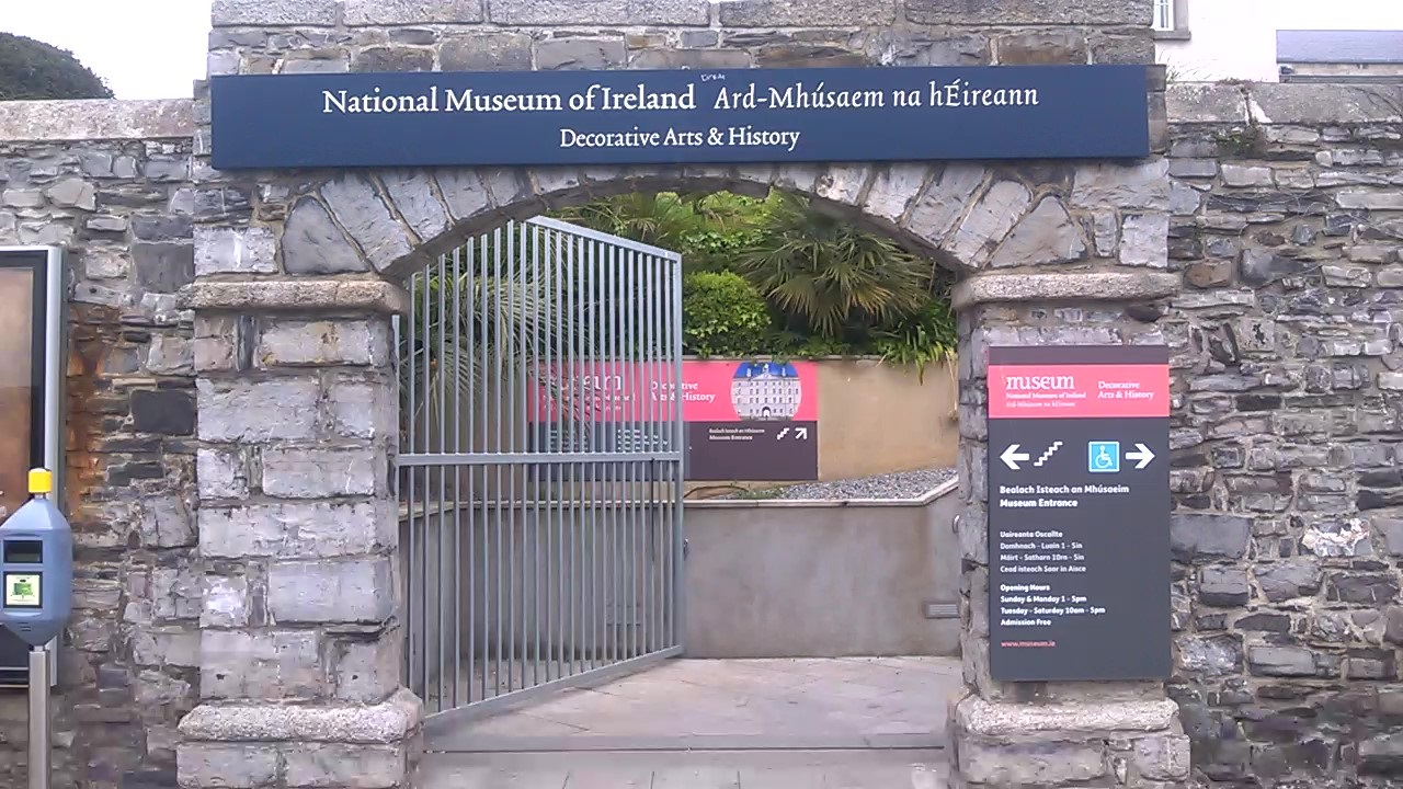 Main entrance to the National Museum of Ireland- Decorative Arts & History- Collins Barracks (2019).